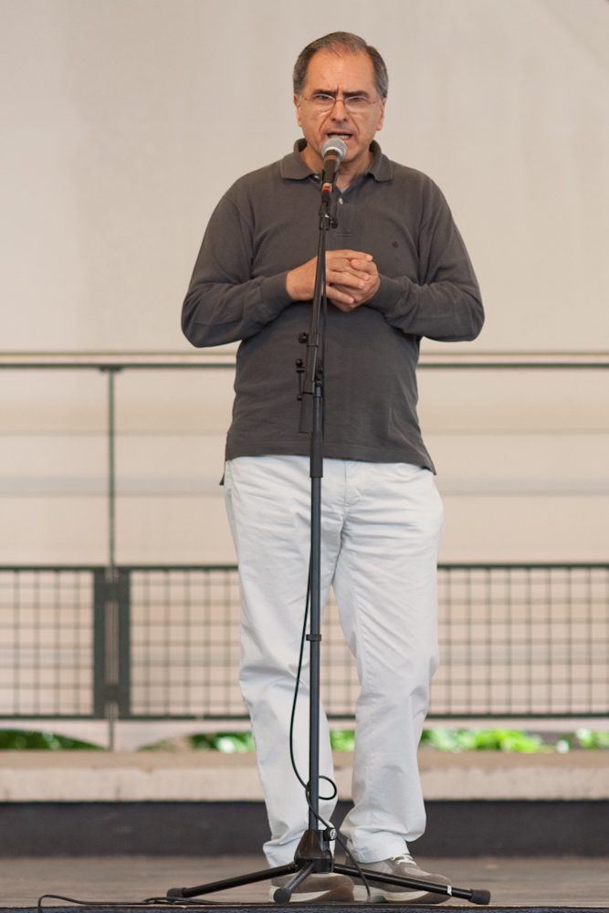 Enrico Pieranunzi